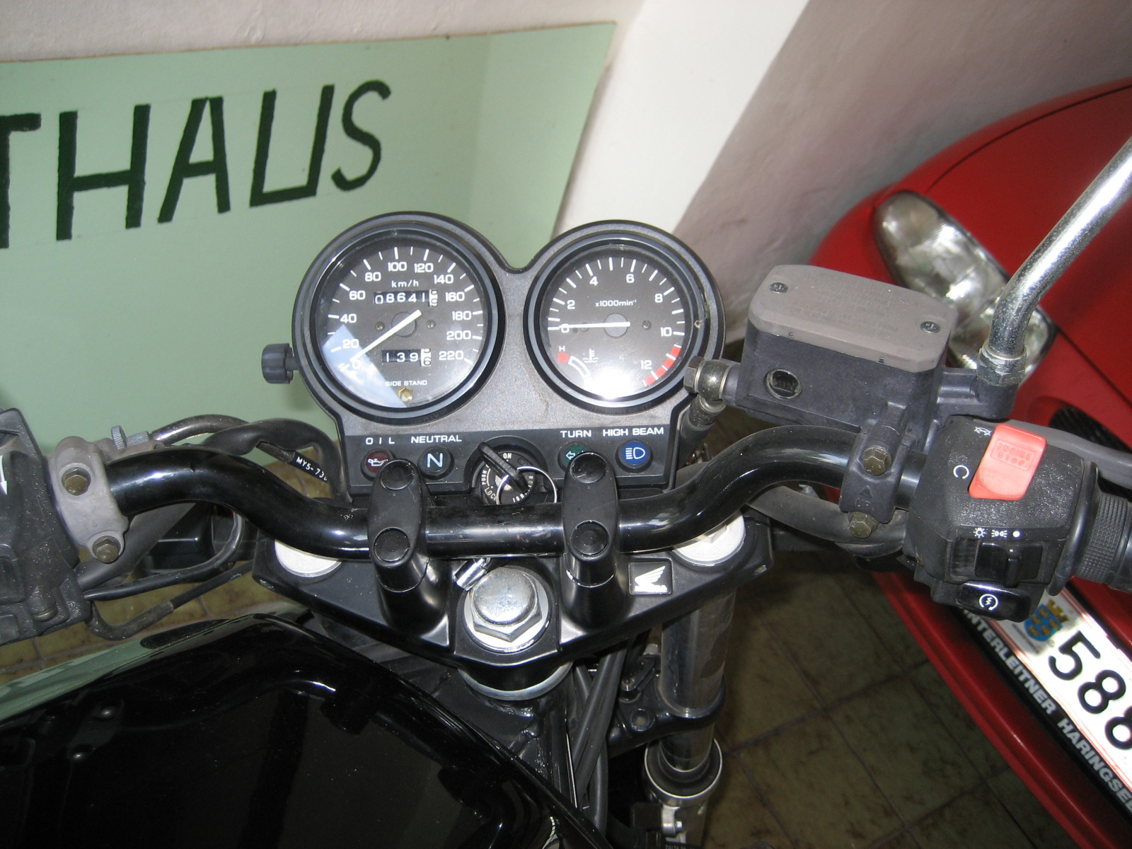 Honda CB500